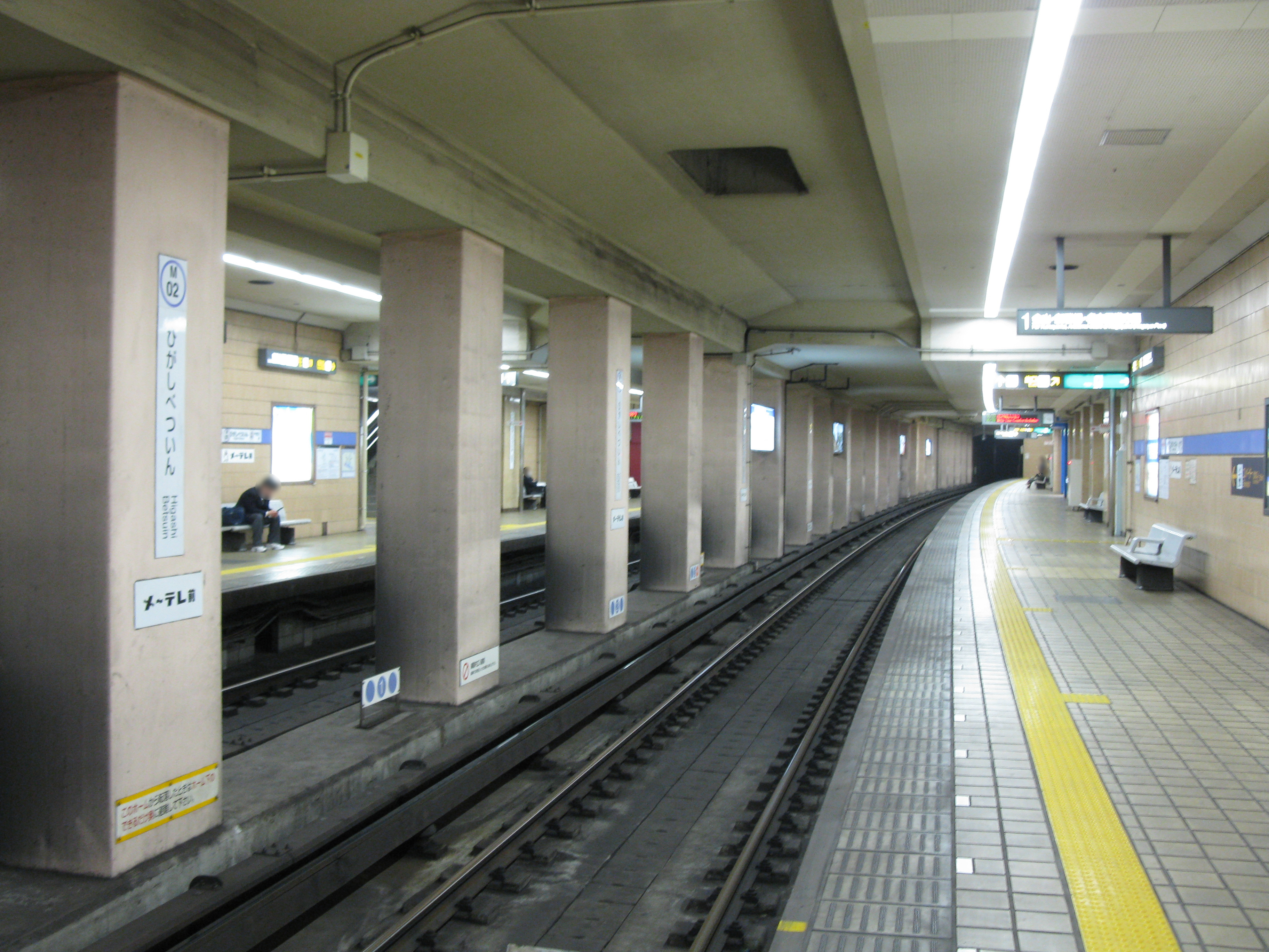 Higashi Betsuin Station platform (Nagoya Municipal Subway Meijō Line)